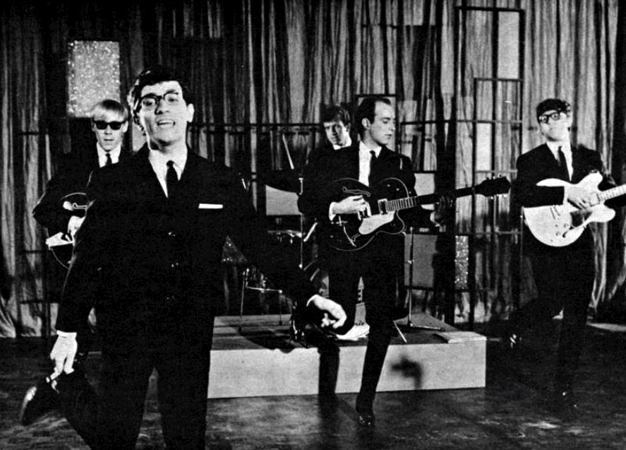 Photo of the musical group Freddie and the Dreamers performing in the film Seaside Swingers. The AM radio station KRLA in Los Angeles published a newspaper for teens called KRLA Beat from 1964 through 1968. None of the editions of this newspaper have copyright marks. This photo was published in their June 9, 1965 edition.